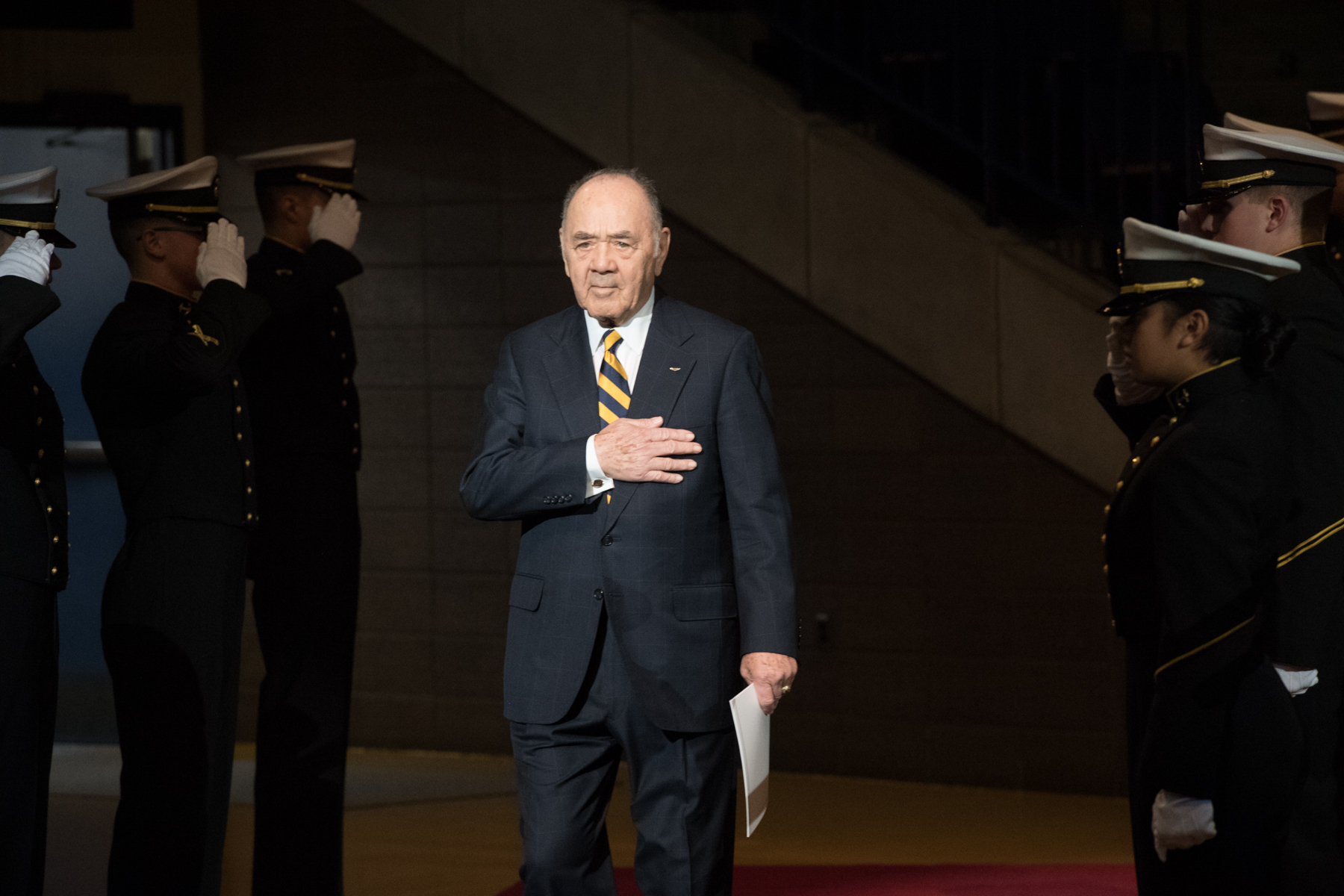 03232018-N-ID678-008